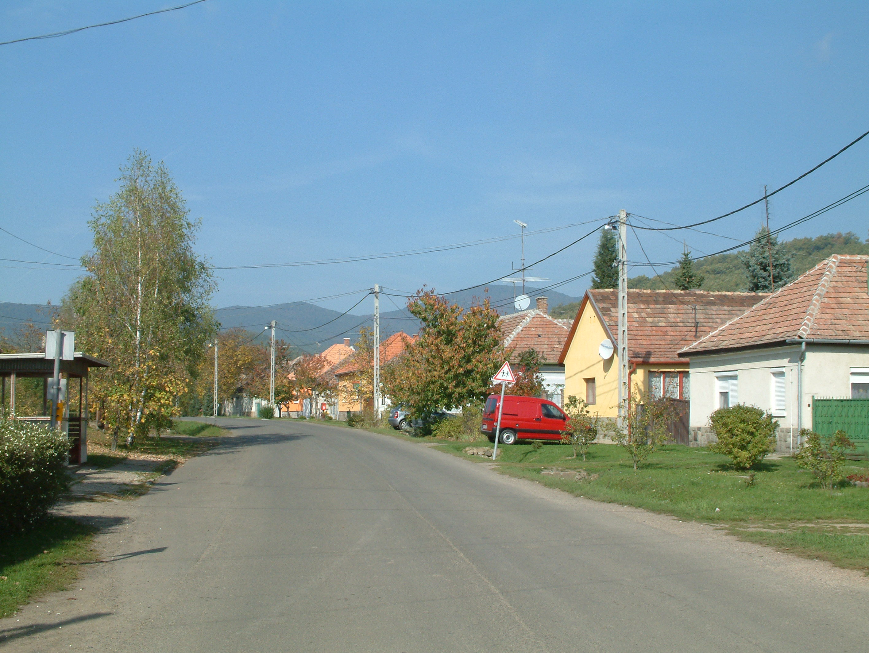 Main street of Kóspallag